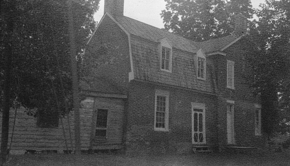 Hewick House, State Routes 615 & 602 vicinity, Urbanna vicinity (Middlesex County, Virginia) cropped This file comes from the Historic American Buildings Survey (HABS), Historic American Engineering Record (HAER) or Historic American Landscapes Survey (HALS). These are programs of the National Park Service established for the purpose of documenting historic places. Records consist of measured drawings, archival photographs, and written reports. When reusing please credit: Library of Congress, Prints & Photographs Division, VA,60-URB.V,1-2 This tag does not indicate the copyright status of the attached work. A normal copyright tag is still required. See Commons:Licensing for more information. This work is in the public domain in the United States because it is a work prepared by an officer or employee of the United States Government as part of that person’s official duties under the terms of Title 17, Chapter 1, Section 105 of the US Code. See Copyright. Note: This only applies to original works of the Federal Government and not to the work of any individual U.S. state, territory, commonwealth, county, municipality, or any other subdivision. This template also does not apply to postage stamp designs published by the United States Postal Service since 1978. (See § 313.6(C)(1) of Compendium of U.S. Copyright Office Practices). It also does not apply to certain US coins; see The US Mint Terms of Use. This file has been identified as being free of known restrictions under copyright law, including all related and neighboring rights.